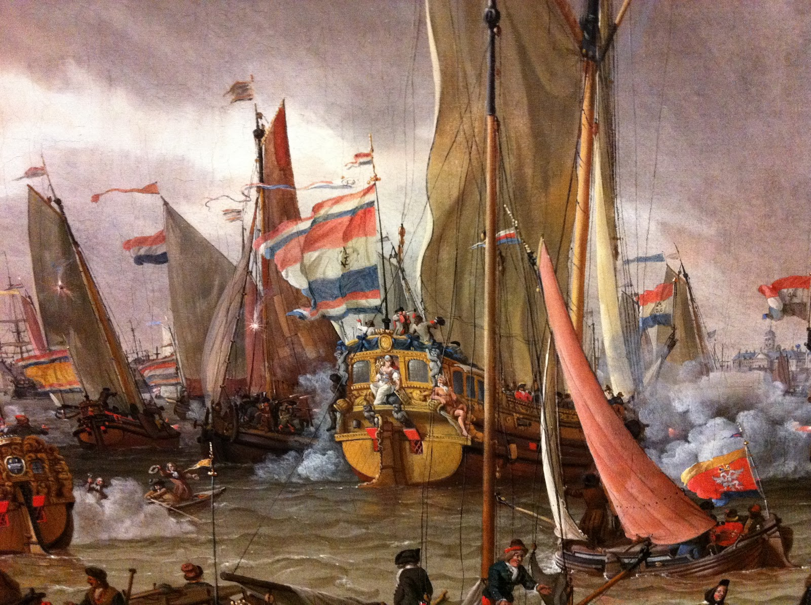 Practice fight of the Dutch Fleet in the honour of Tzar Peter the Great, 1 Sept 1697 (fragment)